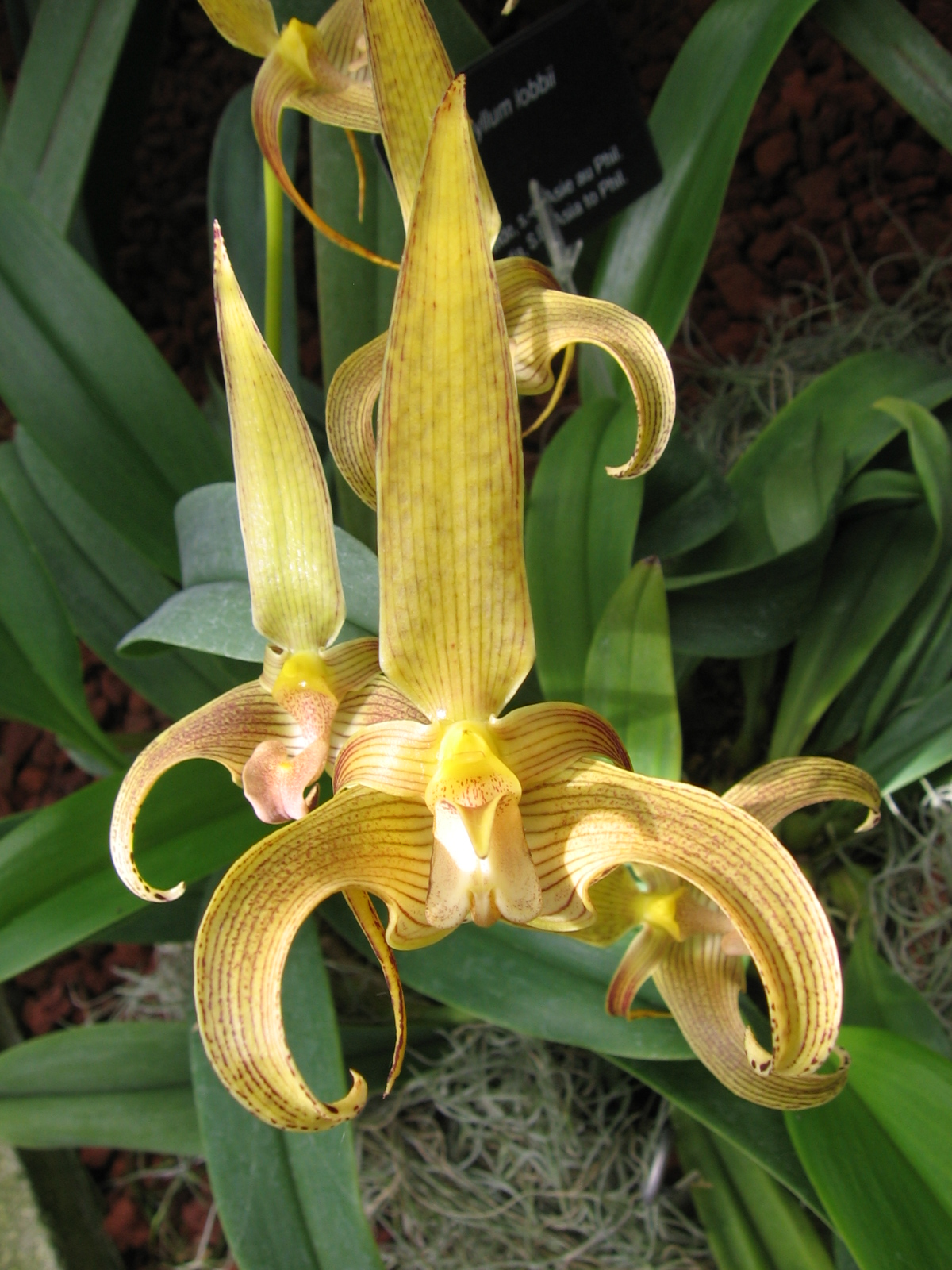 Lobb's bulbophyllum, Bulbophyllum lobbii Jardin botanique de Montréal.